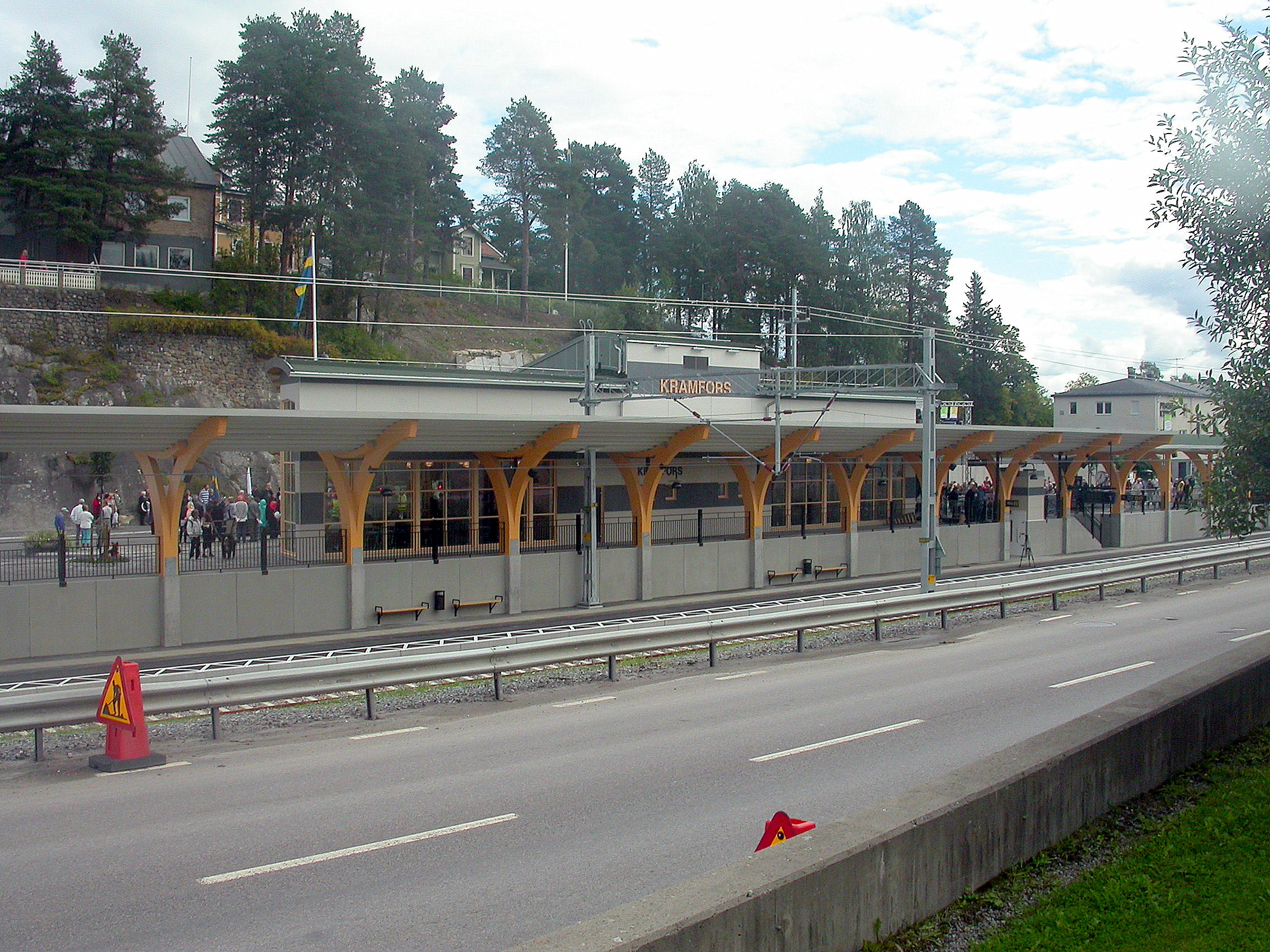 Kramfors railway station, opened august 28, 2010